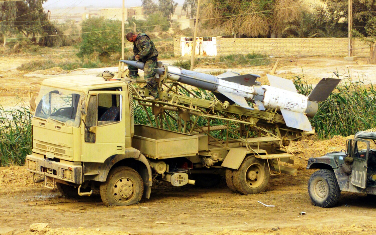 A US Marine Corps member checks the warhead on an Iveco-truck mounted Iraqi S125-Surface-to-Air Missile (NATO-Code SA-3) near the town of Salman Pak during Operation IRAQI FREEDOM.